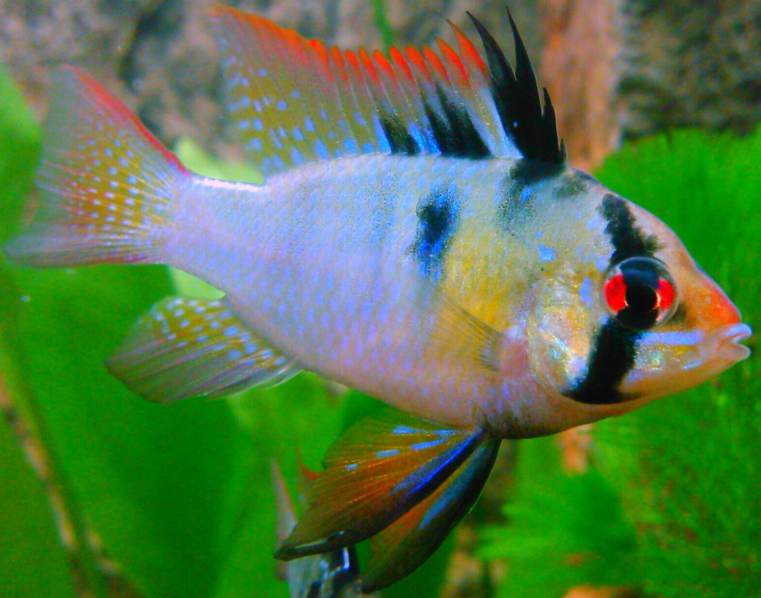 M. Ramirezi Male